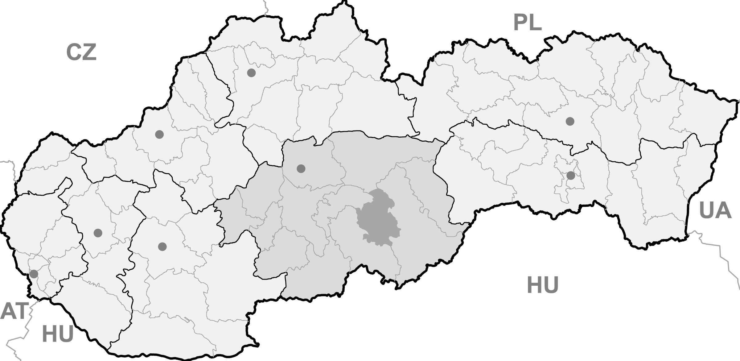 Map of Slovakia, Poltár district and Banská Bystrica region highlighted